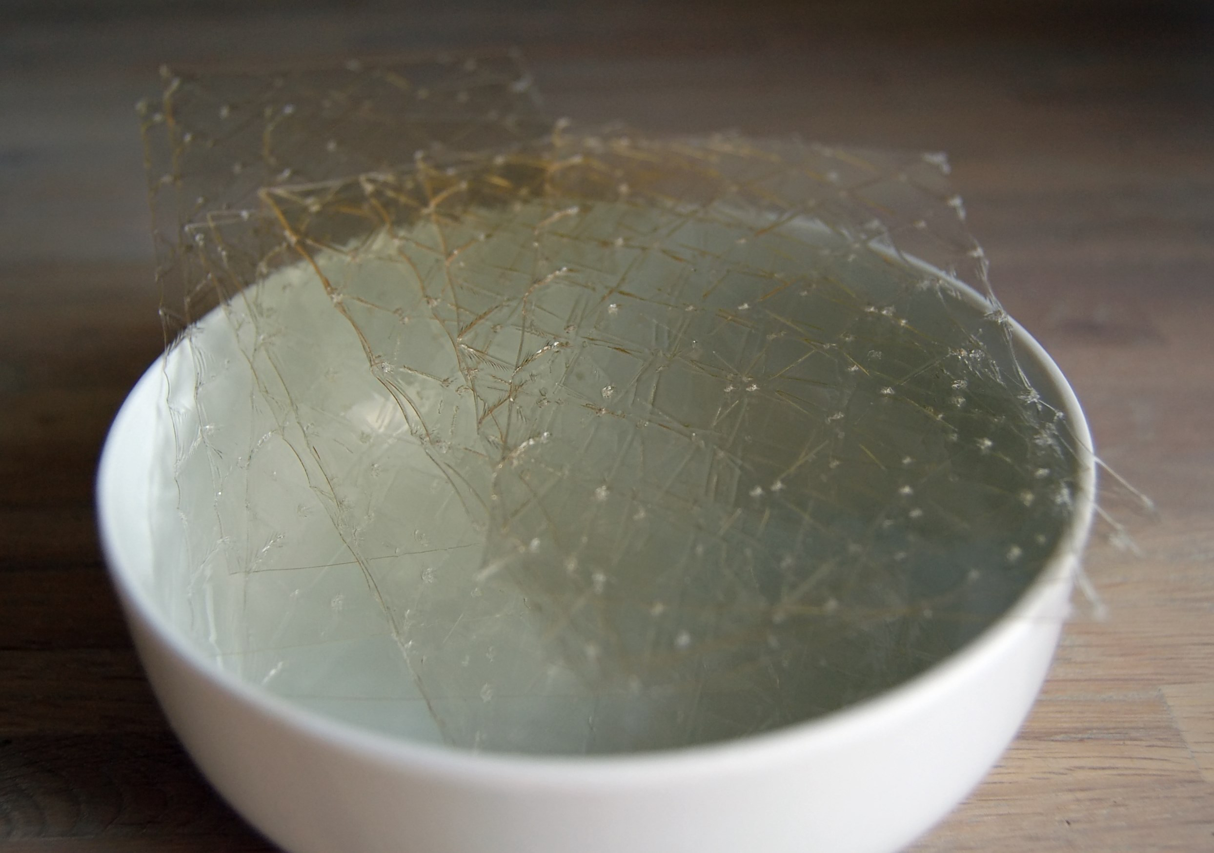 Photo of gelatin plates for cooking